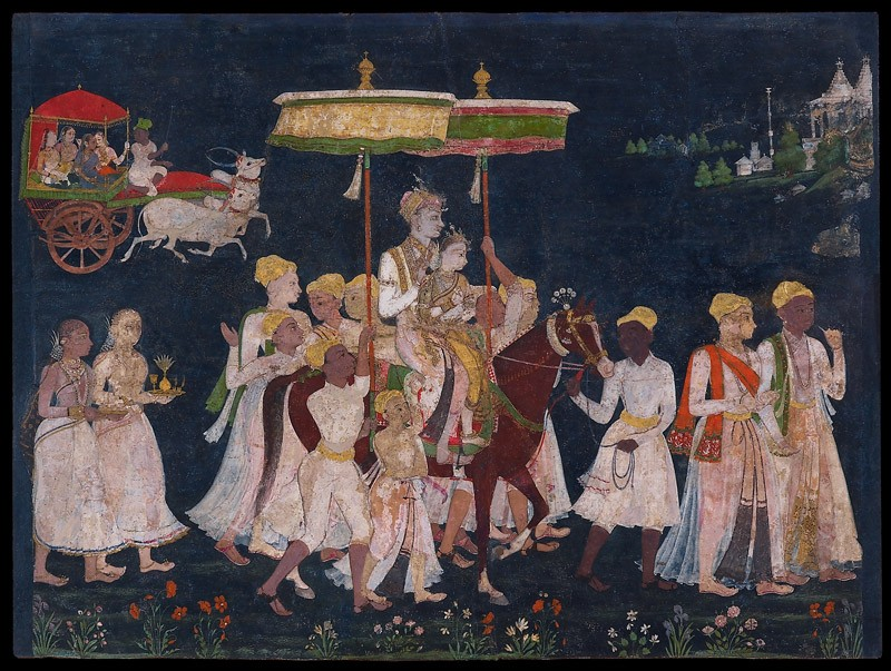 This scene of a wedding party travelling by night depicts Sultan Muhammad Quli Qutb Shah of Golconda (r.1580-1612) bringing home his bride, the beautiful Hindu dancing-girl Bhagmati. Himself a Shia Muslim, Muhammad Quli had fallen in love with Bhagmati as a young prince. He would often ride out to visit her village, fording the sometimes dangerous Musi river to do so.